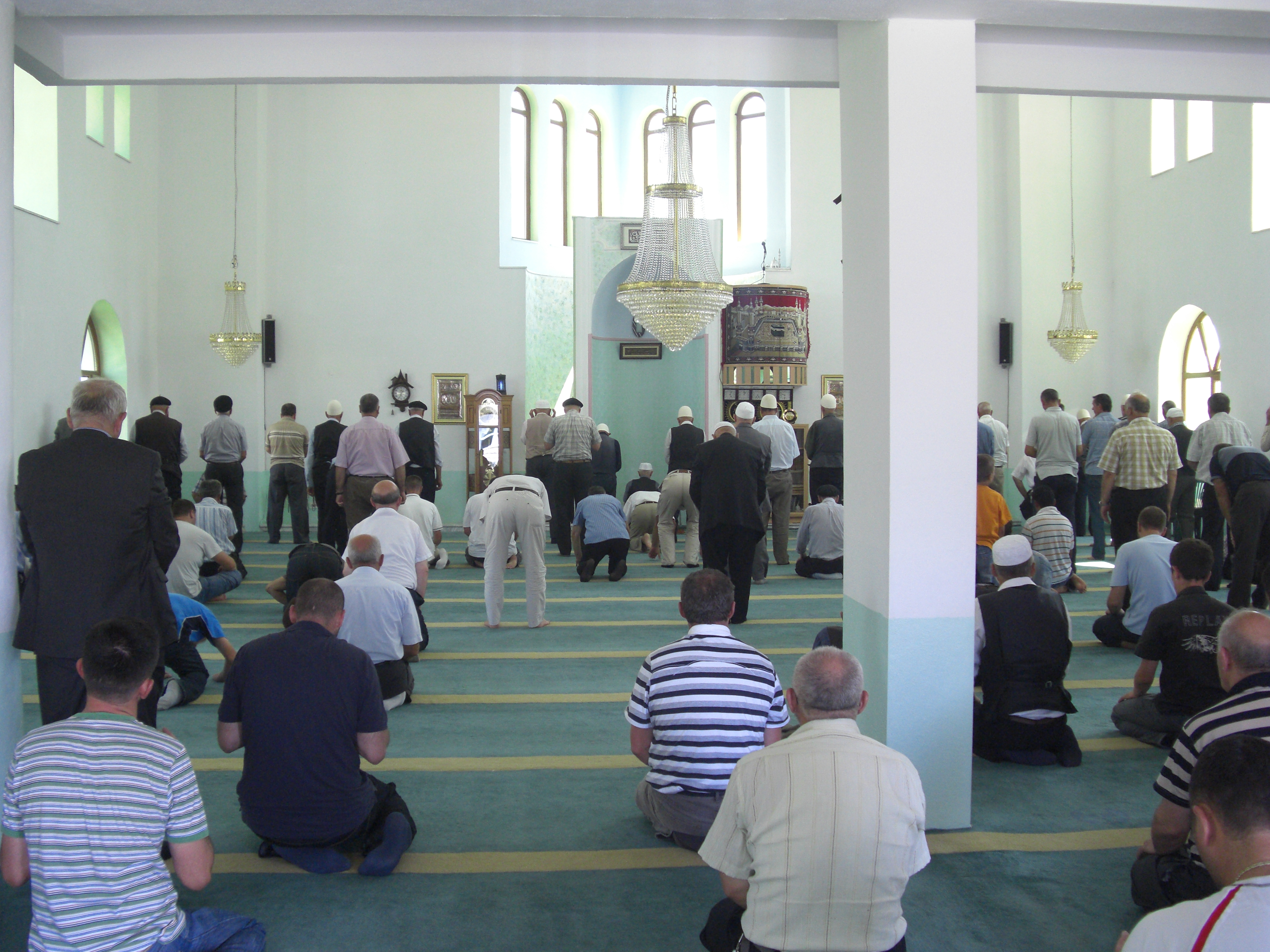 Inside the Mosque in Kastriot Obilic